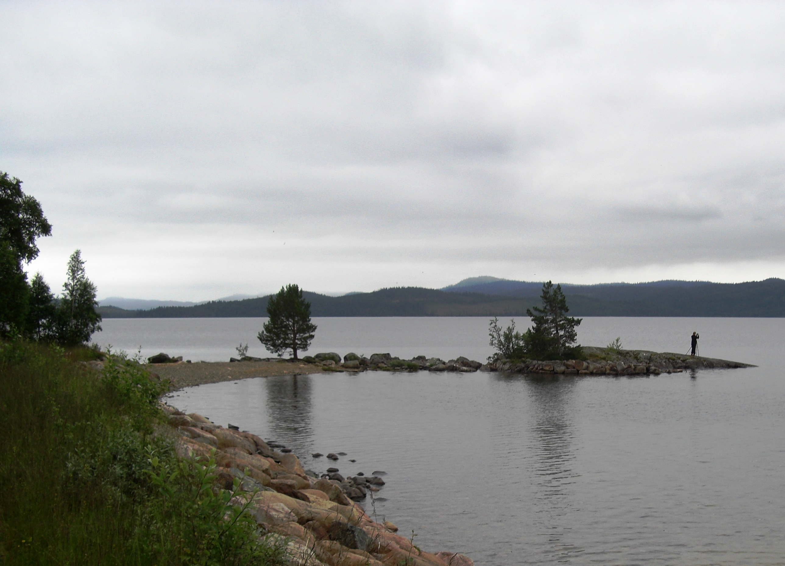 Rock carving site at Sporaneset